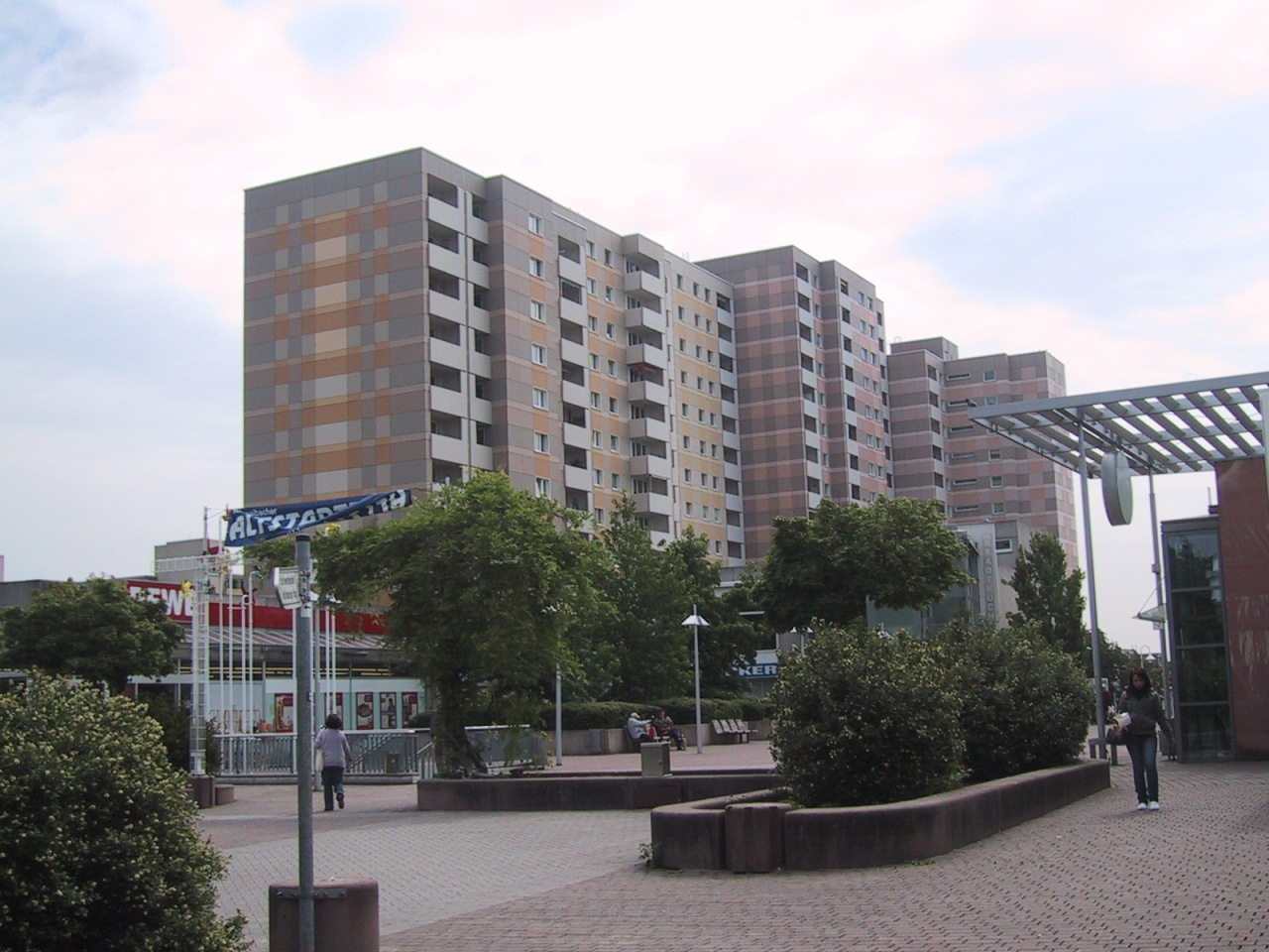 Picture of Schwalbach am Taunus Marktplatz (market place).